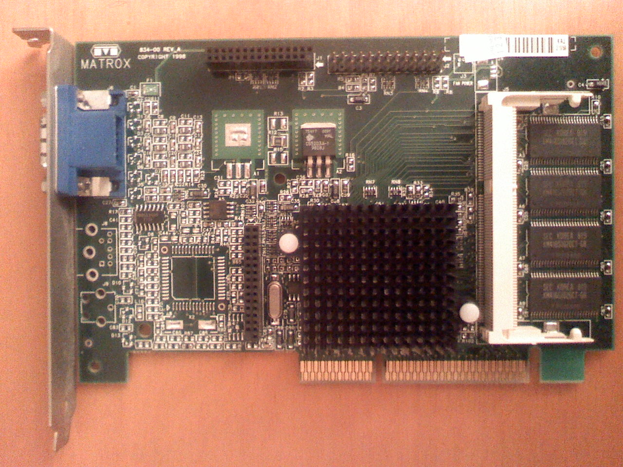 Matrox G200 AGP video card, 8 MB onboard RAM